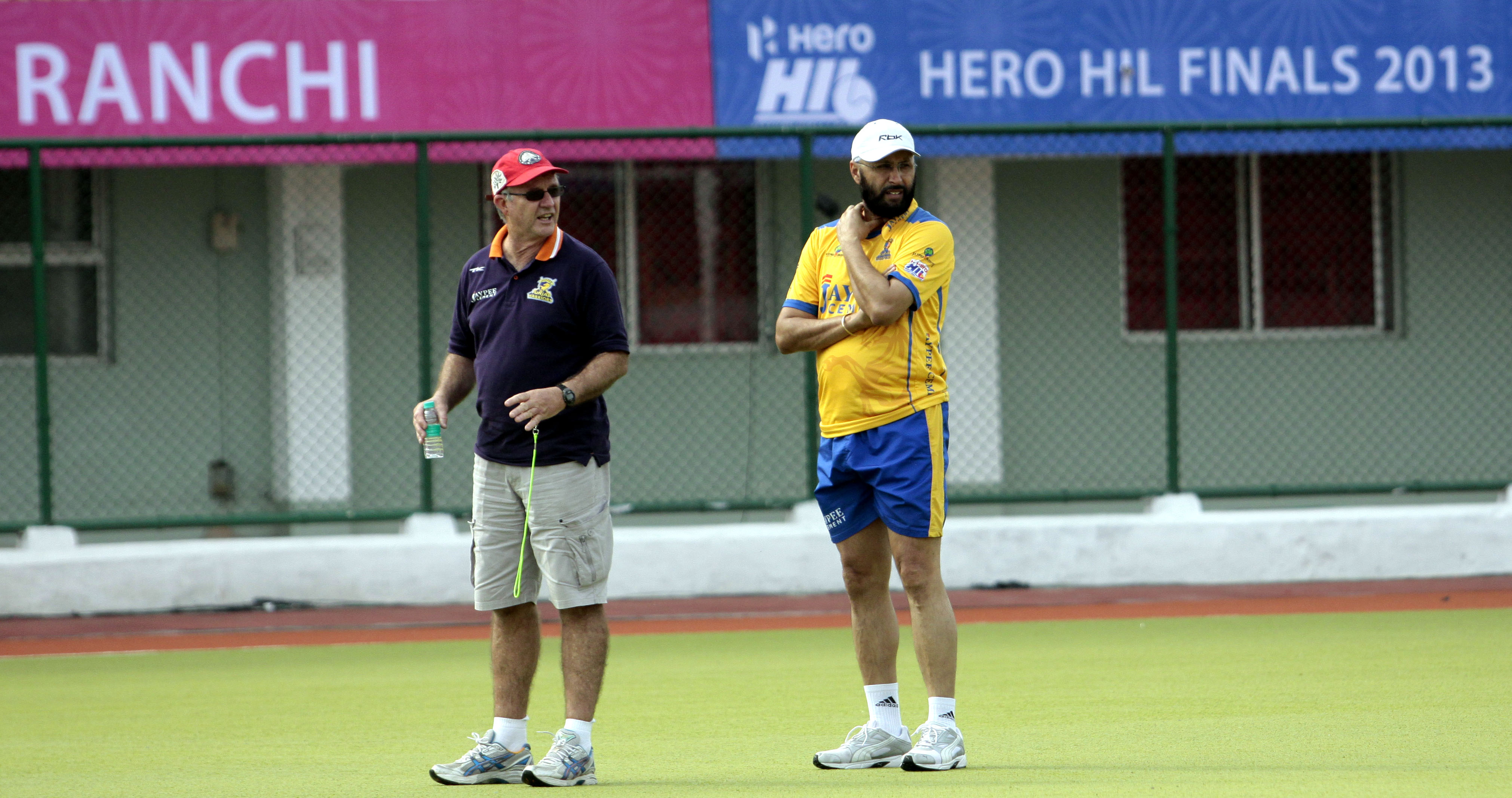 jagbir singh and barry dancer as coaches of team JPW